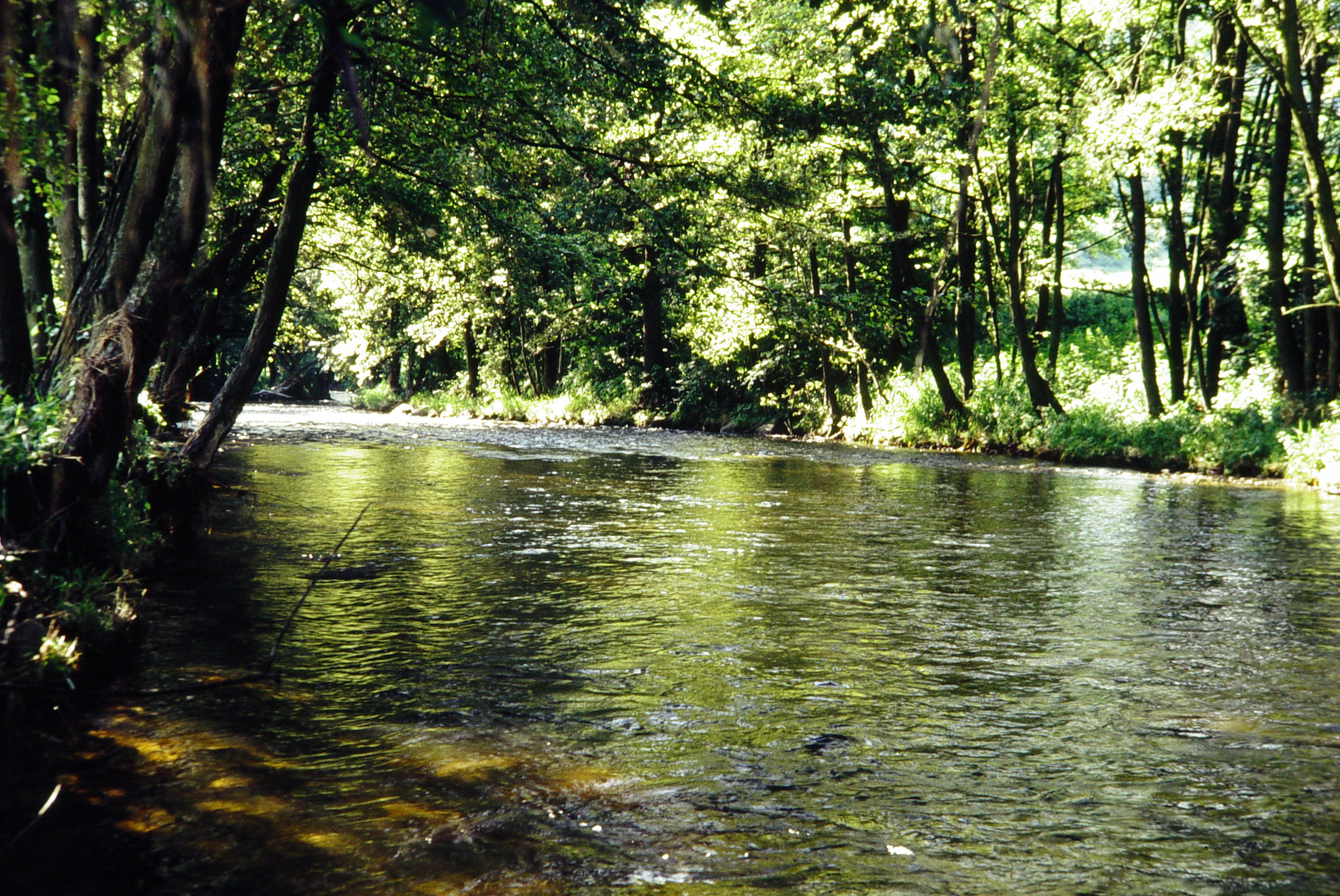 Shows the river